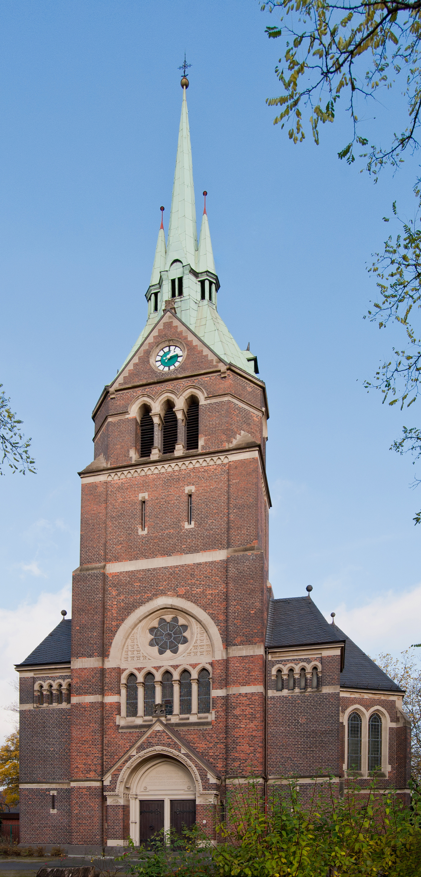 Duisburg (North Rhine-Westphalia, Germany) – borough Hamborn, district Obermarxloh – Protestant Churche of Peace This image shows a heritage building in Germany, located in the North Rhine-Westphalian city Duisburg (no. 12). This photograph was taken with a Nikon D3000.